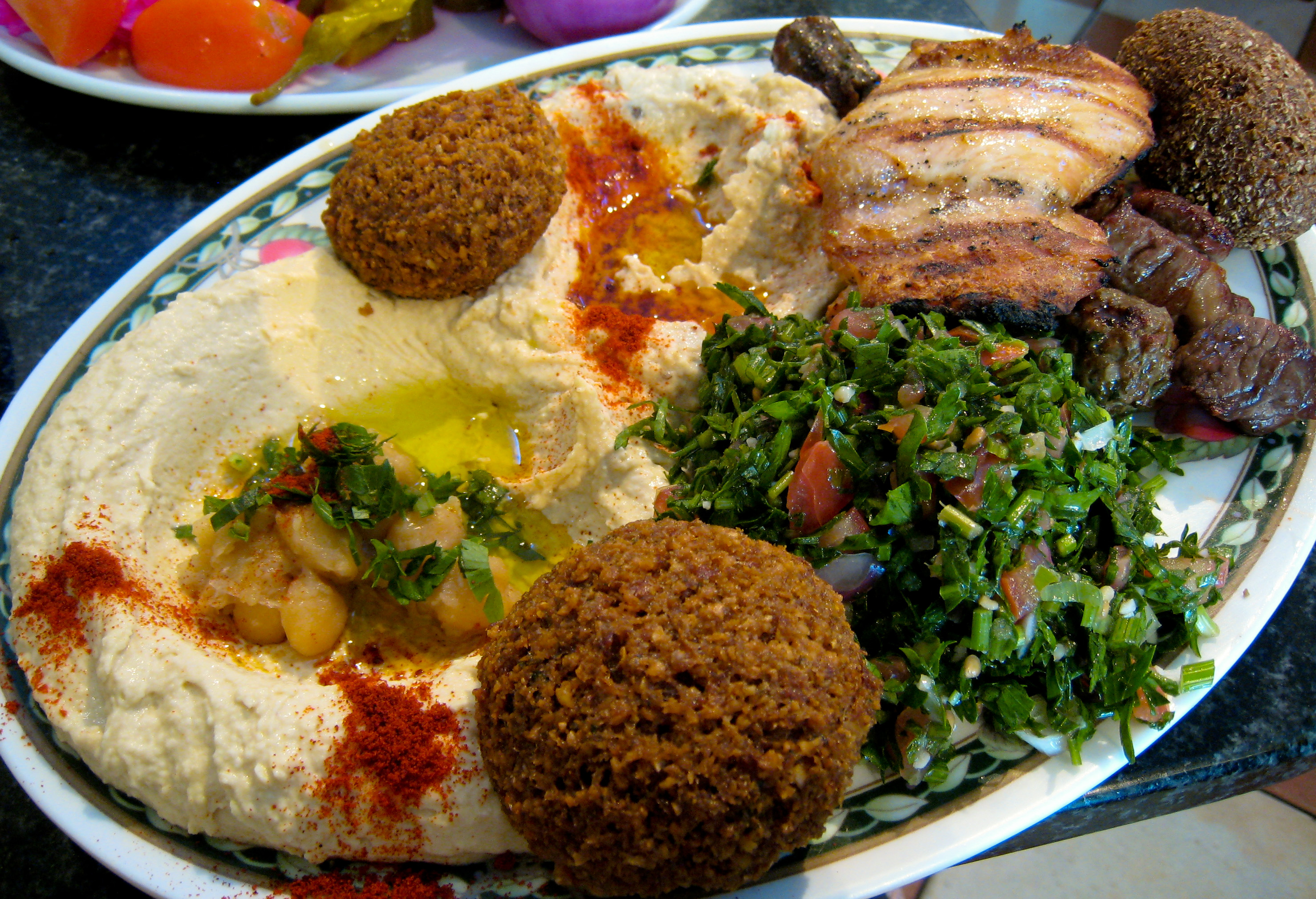 Falafil, Dahina, and other Arabic food.